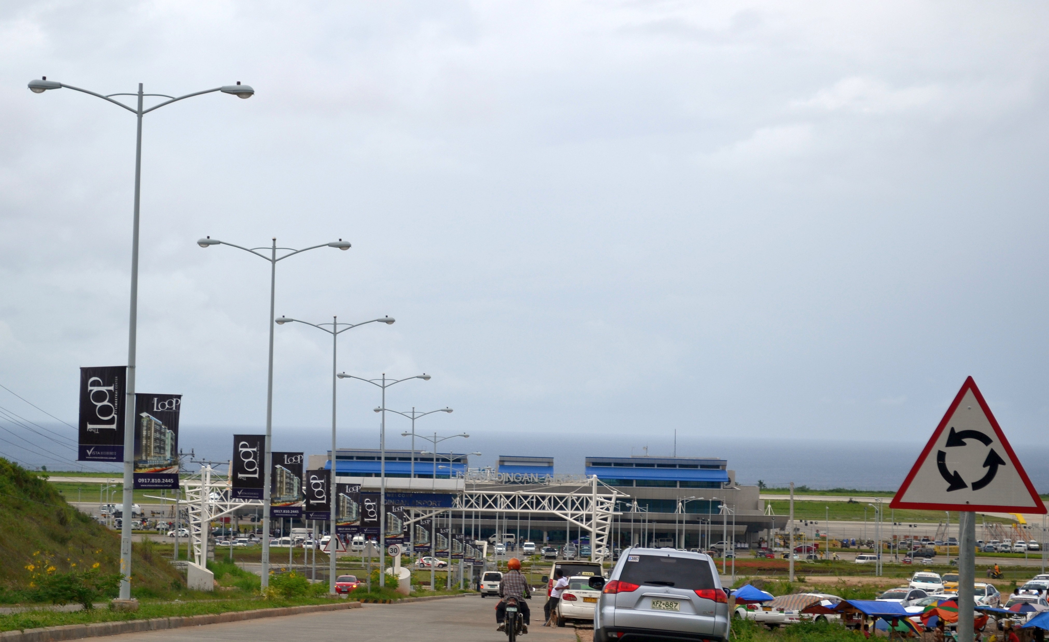 Much of the Laguindingan Airport building seen from the airport access road.